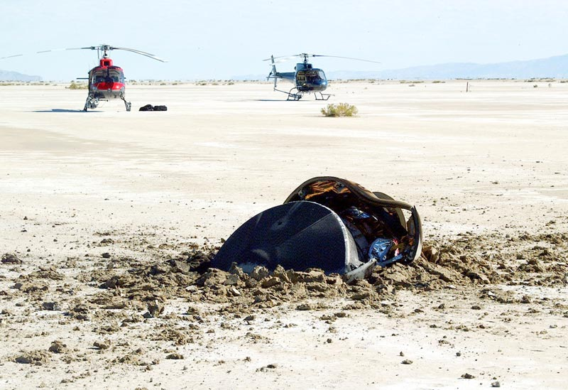 The Genesis sample return capsule on the ground in Utah. The impact occurred near Granite Peak on a remote portion of the Utah Test and Training Range. No people or structures were anywhere near the area.